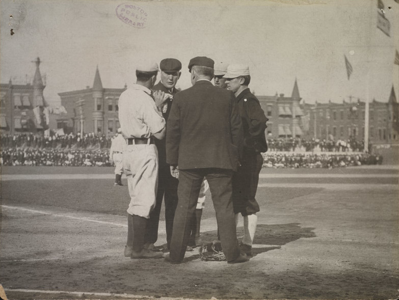 Accession No.: 06_06_000057 Title: Conference on the field at the Columbia Avenue Grounds, 1905 World Series Creator: unidentified Date: 1905 Format: photograph Description: John McGraw, New York Giants manager, at right, confers with two umpires (Jack Sheridan, with back to camera, and Hank O'Day) and two Philadelphia Athletics during 1905 World Series game in Philadelphia. BPL Collection: McGreevey Collection BPL Department: Print Subject: Baseball--History Baseball players Baseball umpires